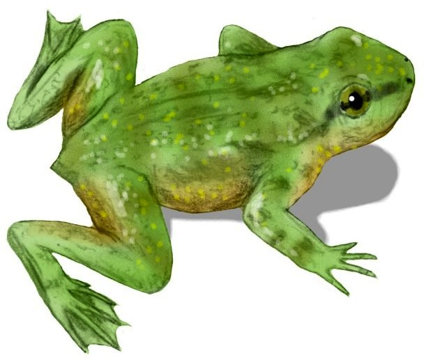 Prosalirus bitis, a proto-frog from the Early Jurassic of Arizona, pencil drawing